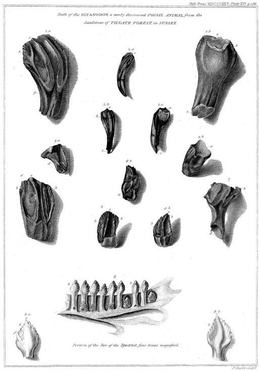 Iguanodon teeth illustrated by G. A. Mantell in "Notice on the Iguanodon, a Newly Discovered Fossil Reptile, from the Sandstone of Tilgate Forest, in Sussex"